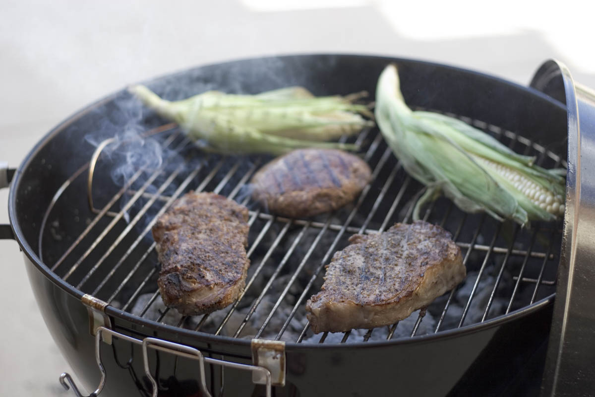 Beef and Corn on a Charcoal BBQ grill